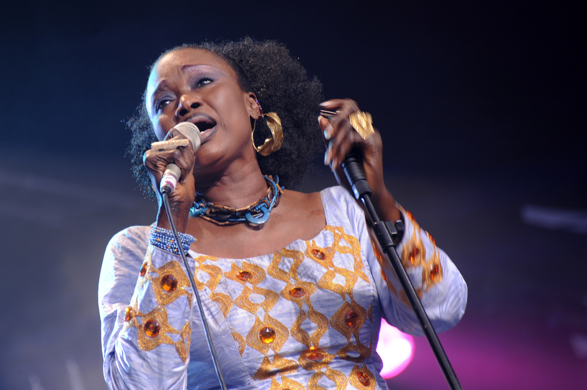 Taken for BBC Radio 2 at Cambridge Festival 2009